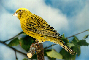 Clear Cap Gold